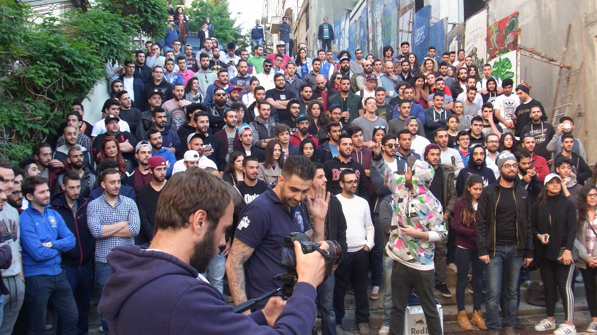 500px provided description: The staircases in this arty Beirut district are some of the world's most renowned. [#Achrafieh ,#Middle East ,#Lebanon ,#Beirut ,#Christian ,#Mediterranean ,#Asia ,#Muslim ,#Gemmayzeh ,#Mar Mikhael]